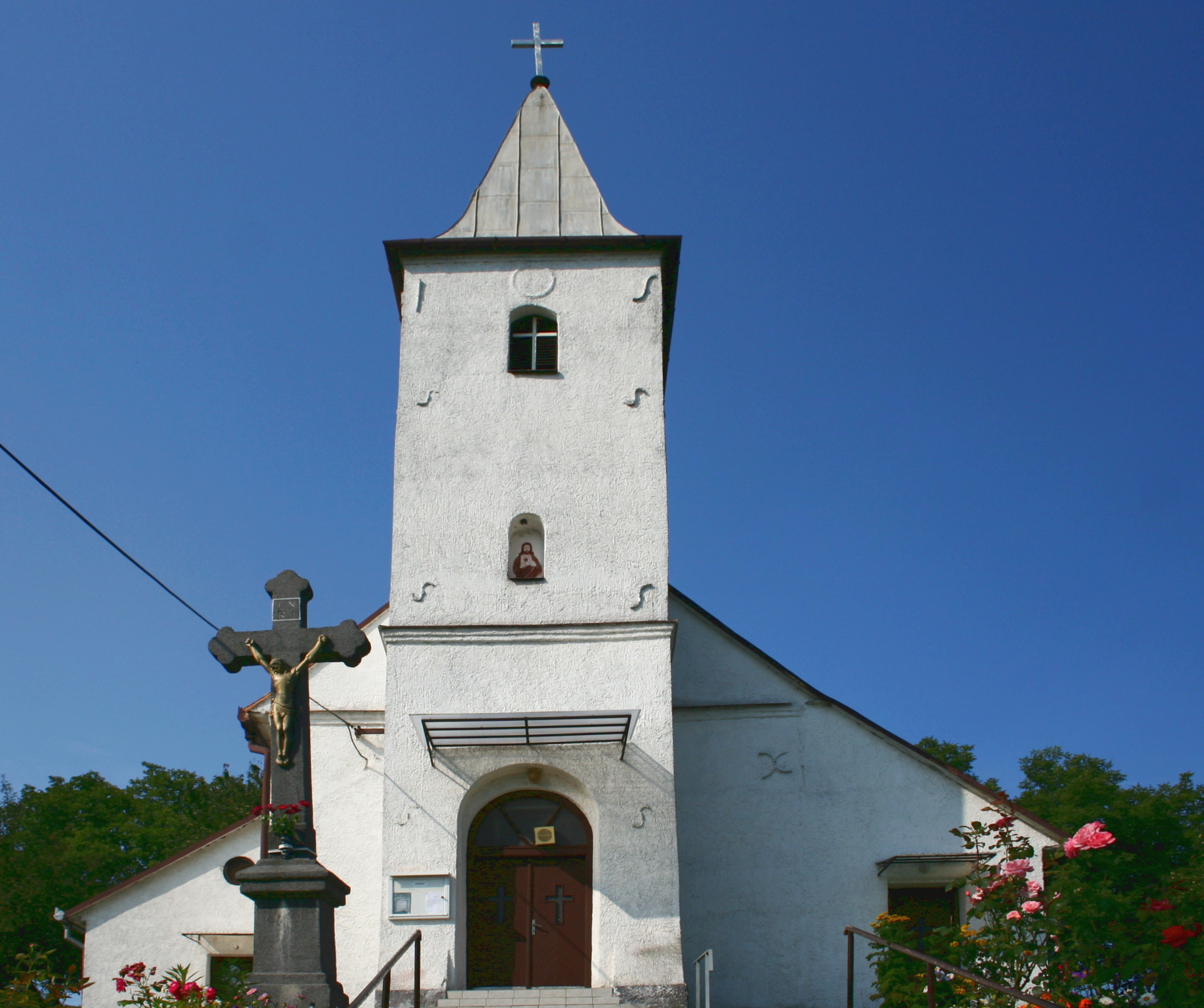 church in Giglovce, Slovakia